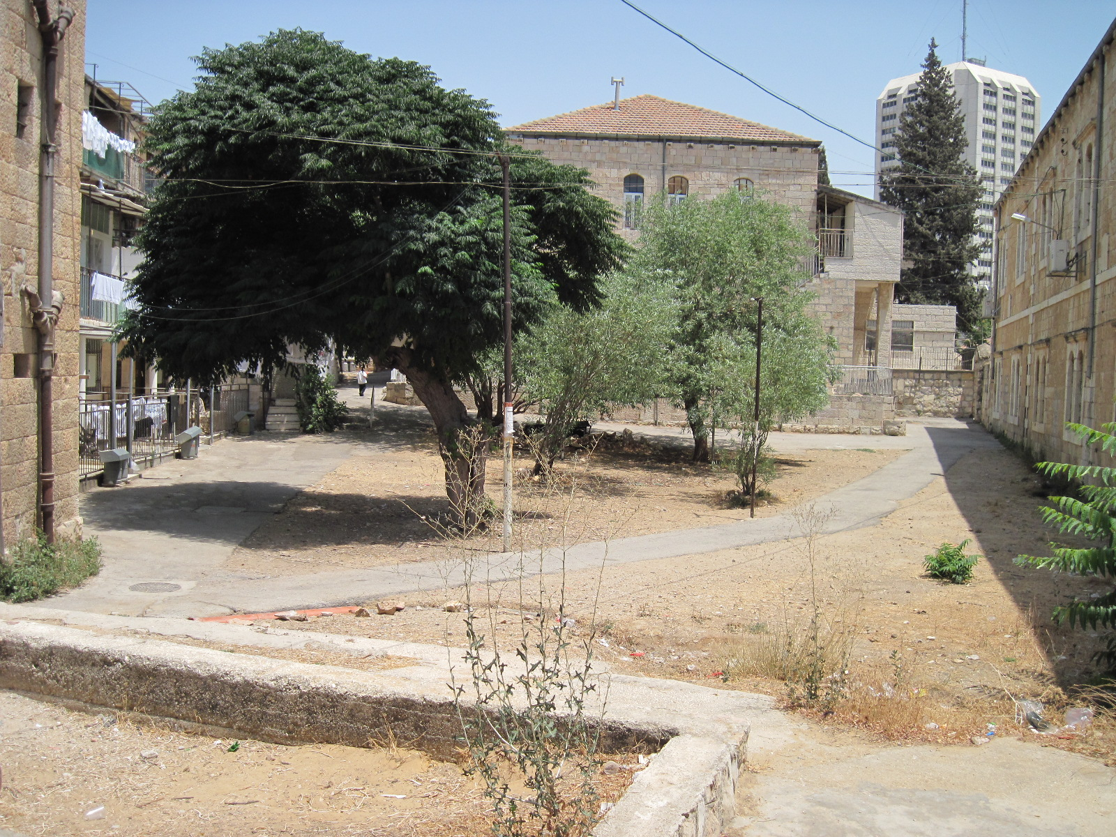 Batei Broyda, Jerusalem